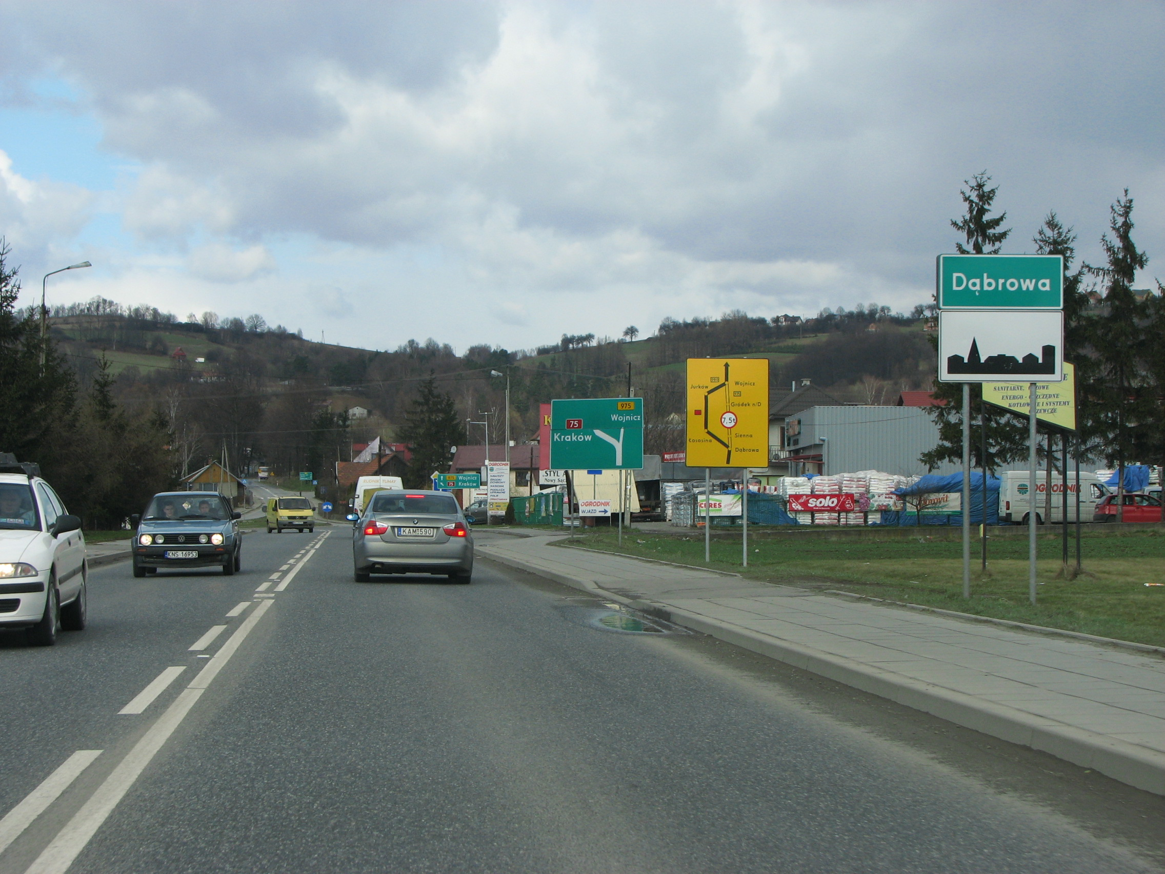 National road DK75 (Poland) in Dabrowa village. Crossroad with DW975